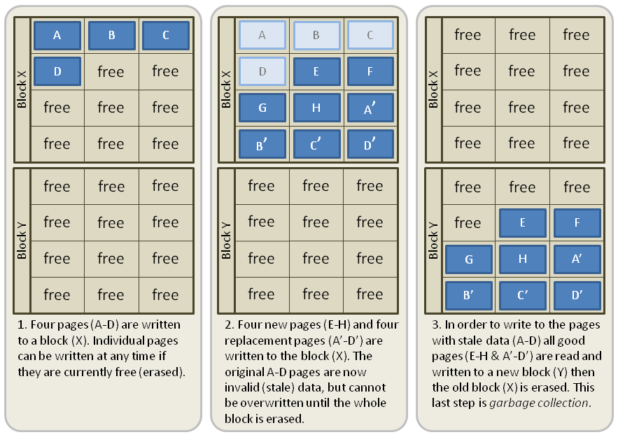 This drawing is an illustration of garbage collection on an SSD showing pages written over time and how those pages have to be rewritten to other blocks to free up pages holding stale data.